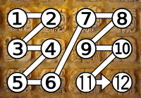 Maya script reading order, assuming the inscription only consisted of the glyphs pictured, and did not extend beyond the photo.